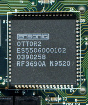 Ensoniq's OTTO Wavetable Synthesizer chip. Scanned card.